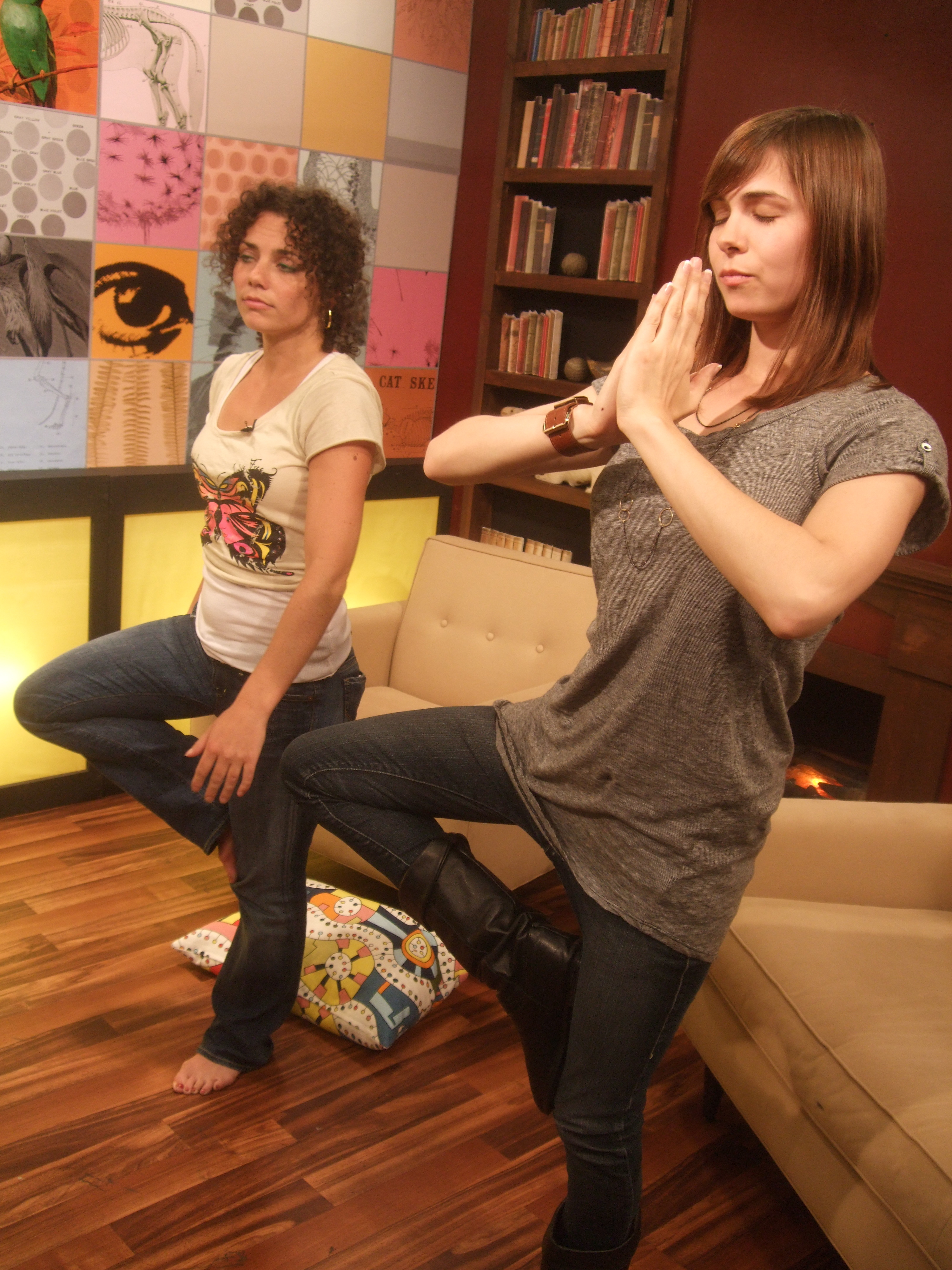 At Rev3 for 48 Hour Film project